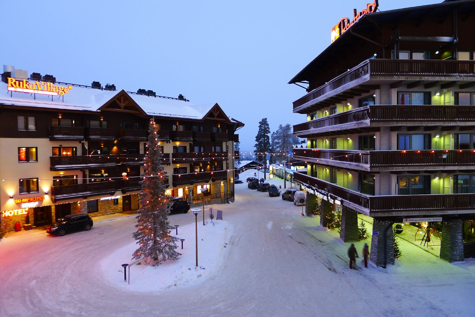 View from the new lookout tower in the centre of Ruka, Finland